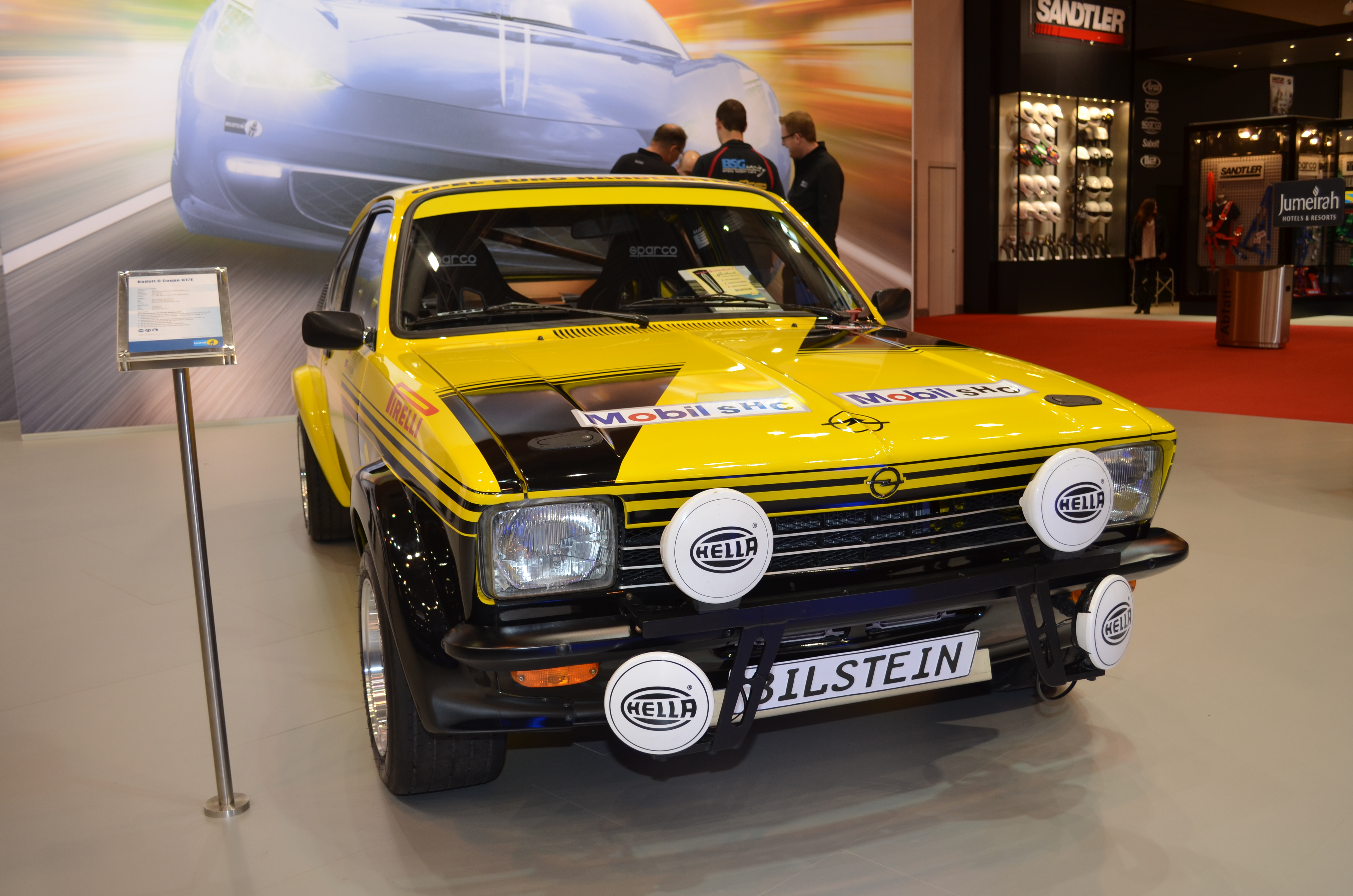 Motorshow_Essen_2013-11-30 10-33-43